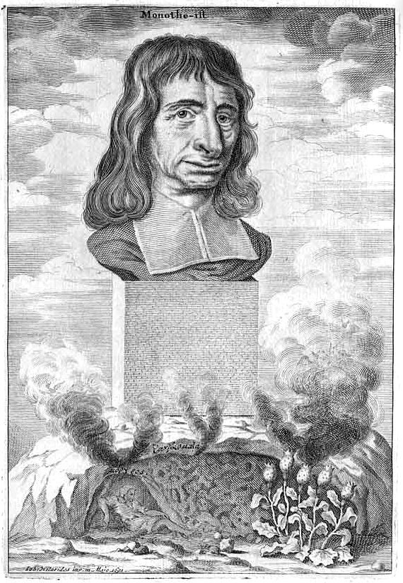 Balthasar Bekker (1634 - 1698), Dutch divine and author of philosophical and theological works. Opposing superstition, he was a key figure in the end of the witchcraft persecutions in early modern Europe.